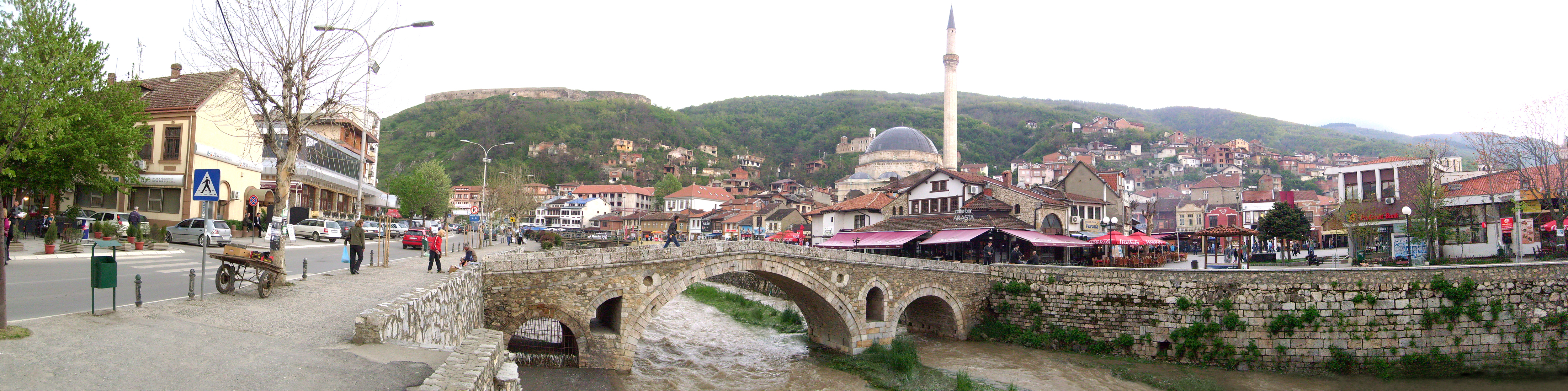 Panorama of Prizren: Stone Bridge, is a symbol of Prizren, under The Bistrica, Sinan Pasha Mosque and the formal right of the Sadirvan Square. (Prizren / Kosovo)